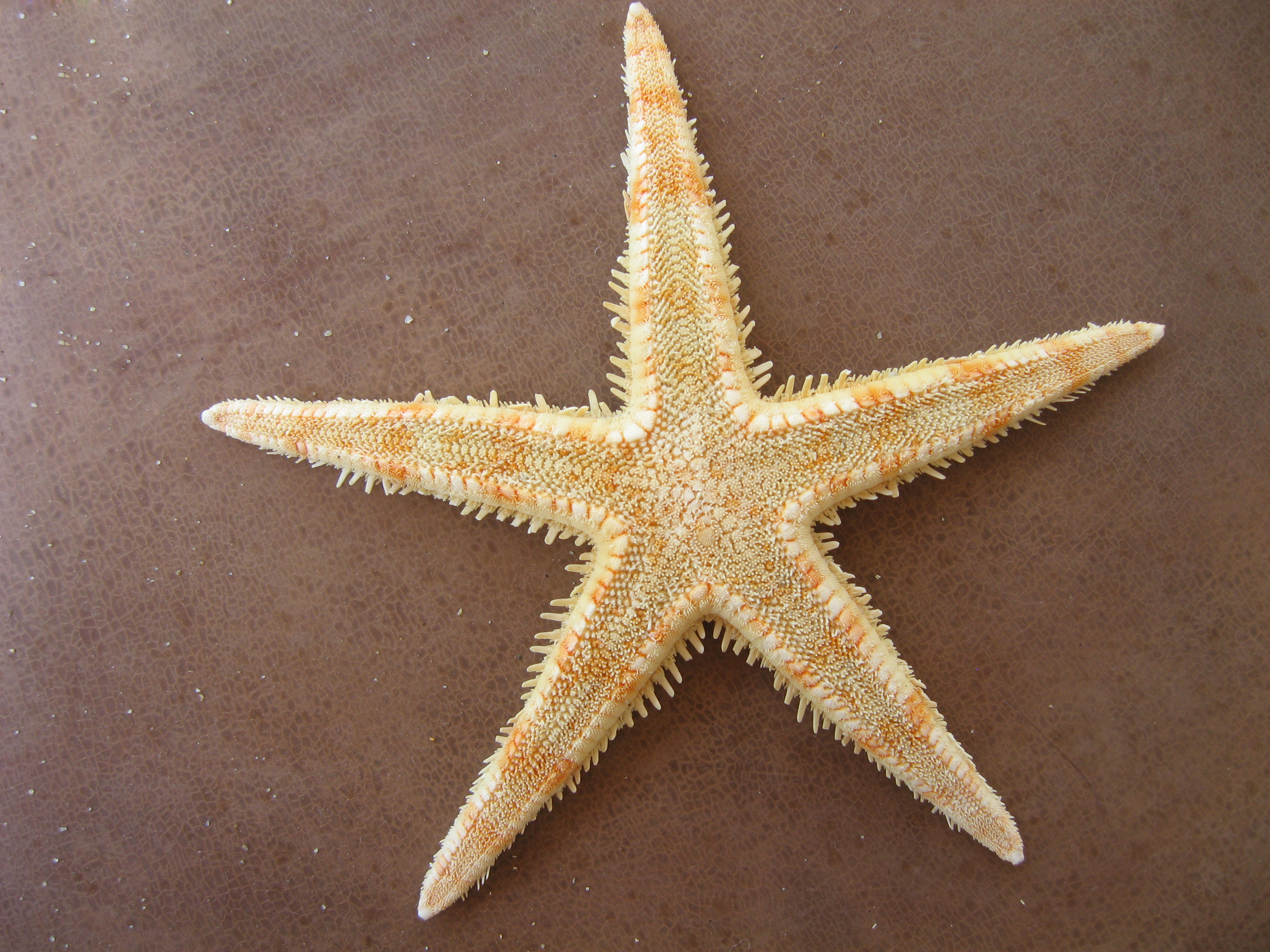 Sea star